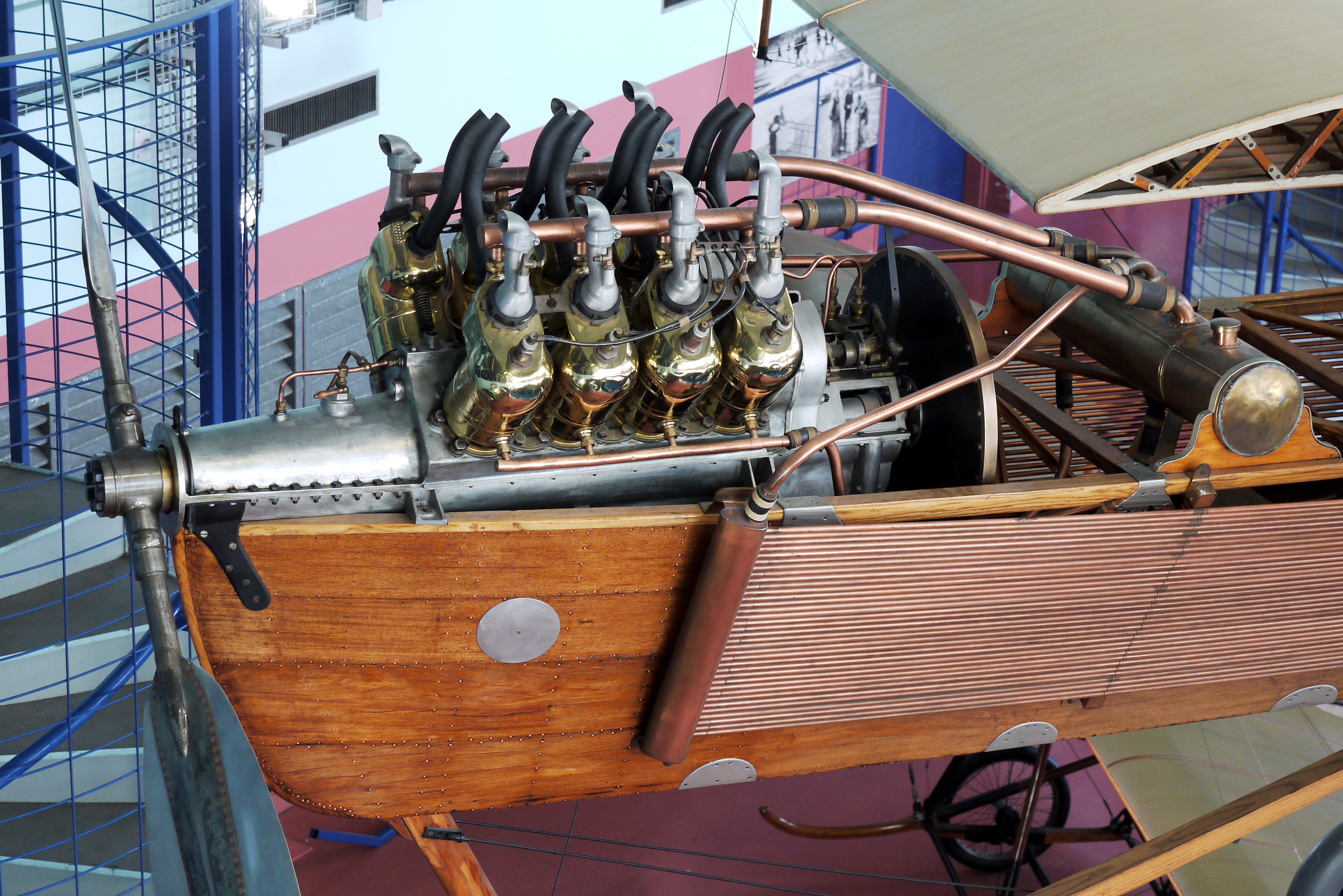 Antoinette VII Airplane (1909), Museum of Air and Space Paris, Le Bourget (France)